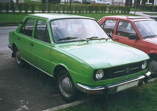 Skoda 105 L (1976-1979) with nonstandard back mirror